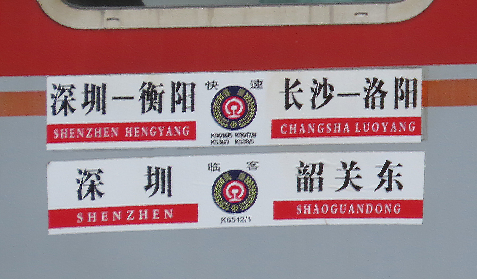 The upper one is scheduled, while the lower is temporary. Guangzhou Railway (Group) Corporation tend to attach another board when operating a temporary train with carriages of scheduled trains.